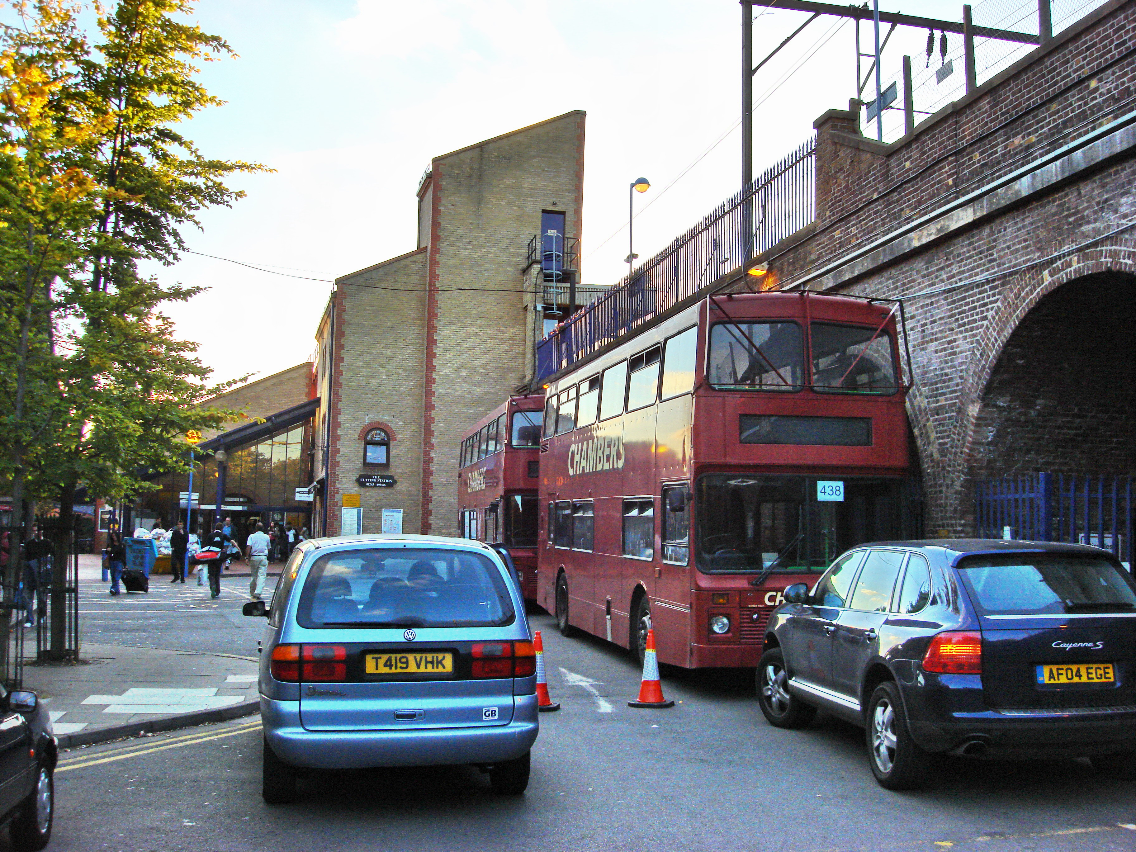 The entrance to Chelmsford railway station. Two Chambers buses are in view.